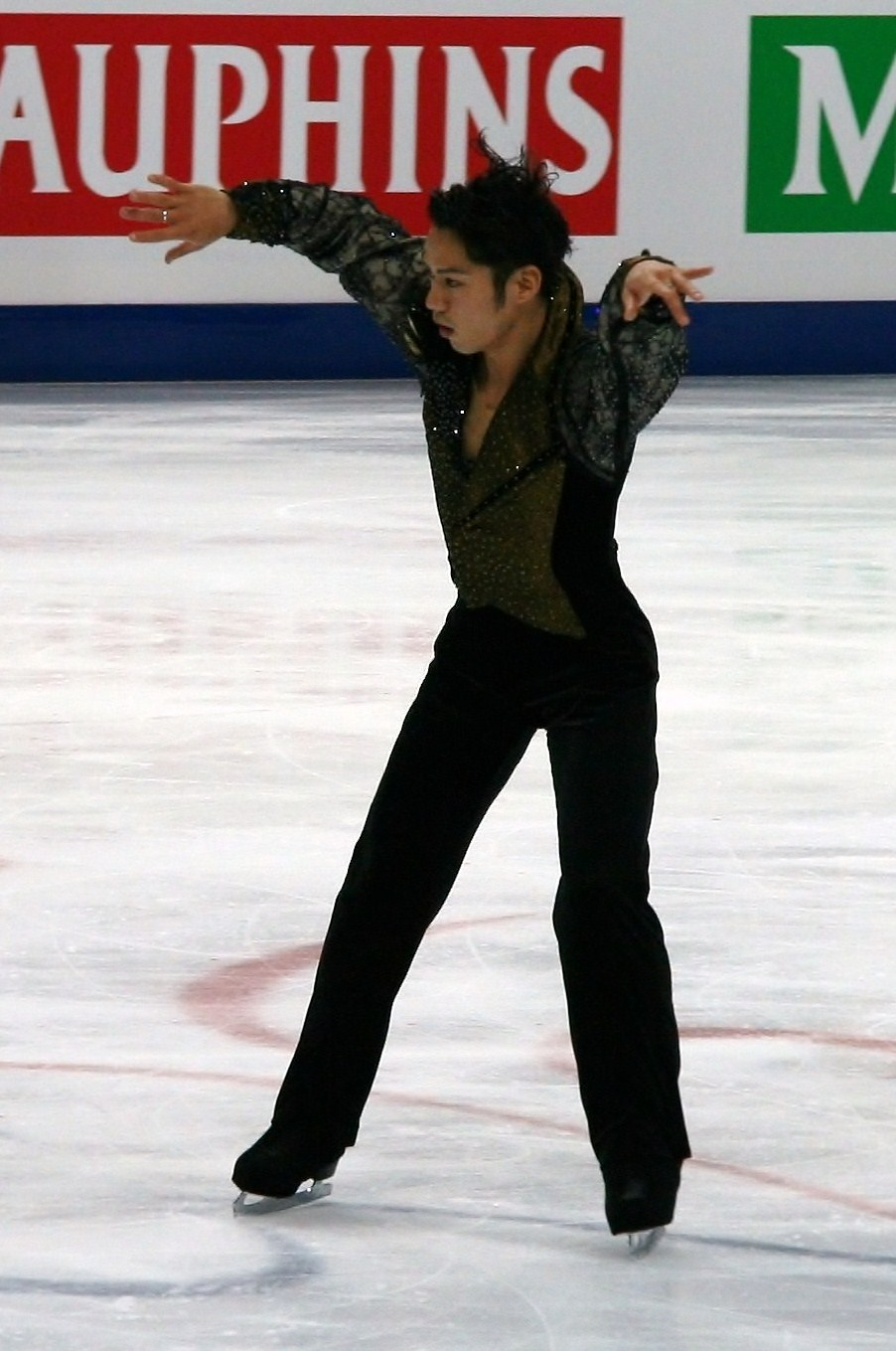 Daisuke Takahashi at the 2011 World Figure Skating Championships